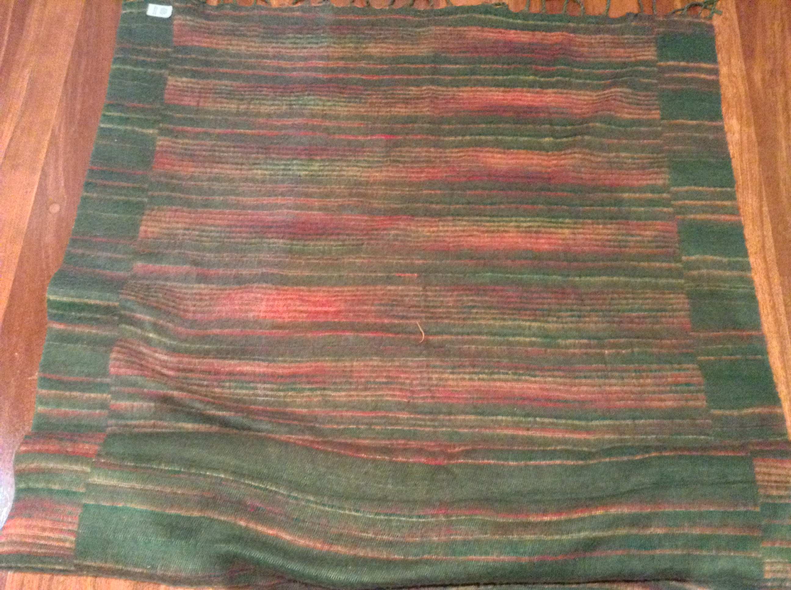 A blanket/poncho made in tilahar sold to fund construction of a school.